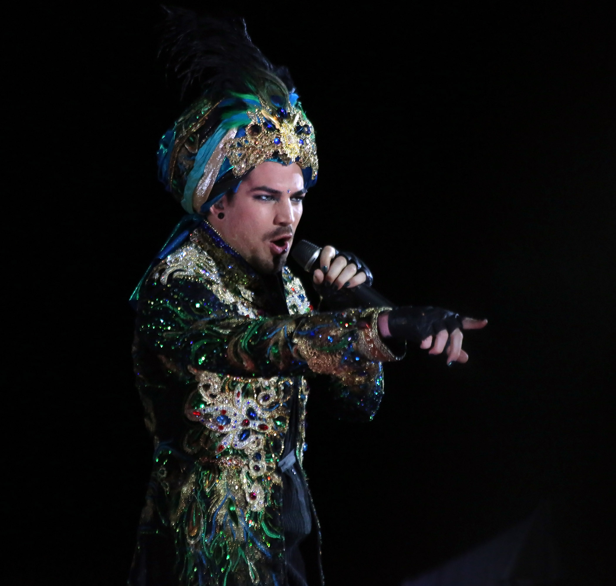 Adam Lambert, opening show of Life Ball 2013 at the city hall of Vienna, Vienna, Austria.